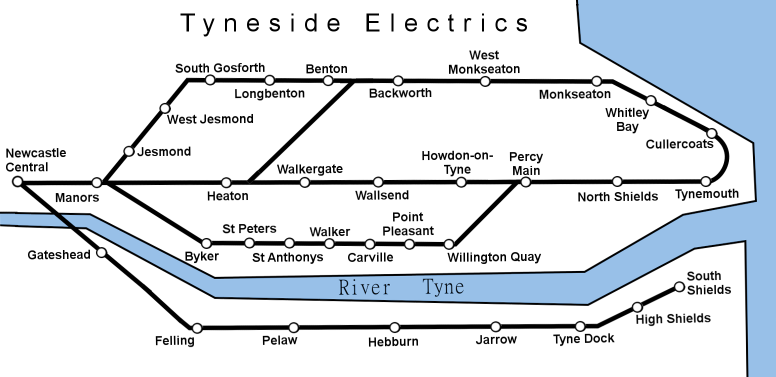 Tyneside Electrics rail network at its greatest extent. Self work, based on map in the book 'The North Eastern Electrics' by Ken Hoole.